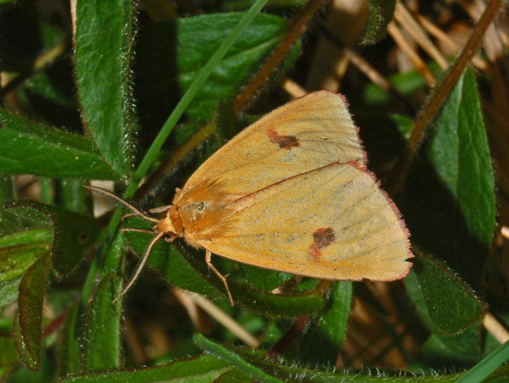 Arctiidae - Diacrisia sannio